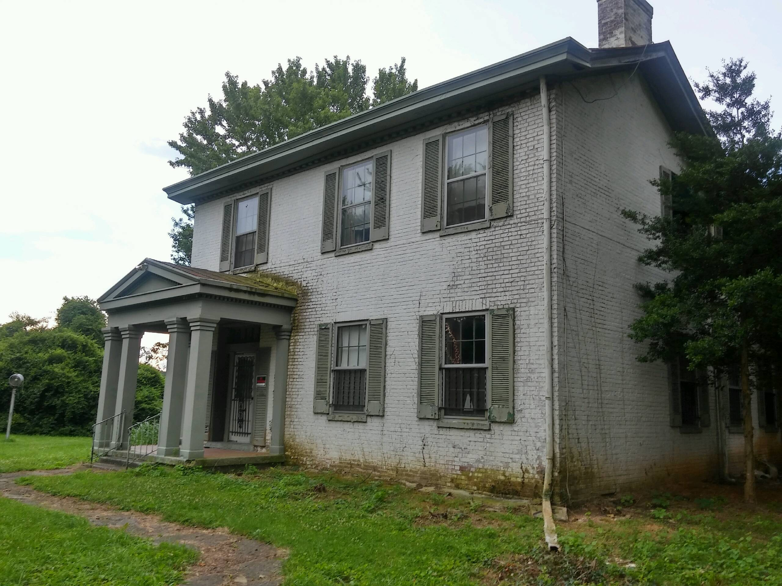 This is the front of the main house